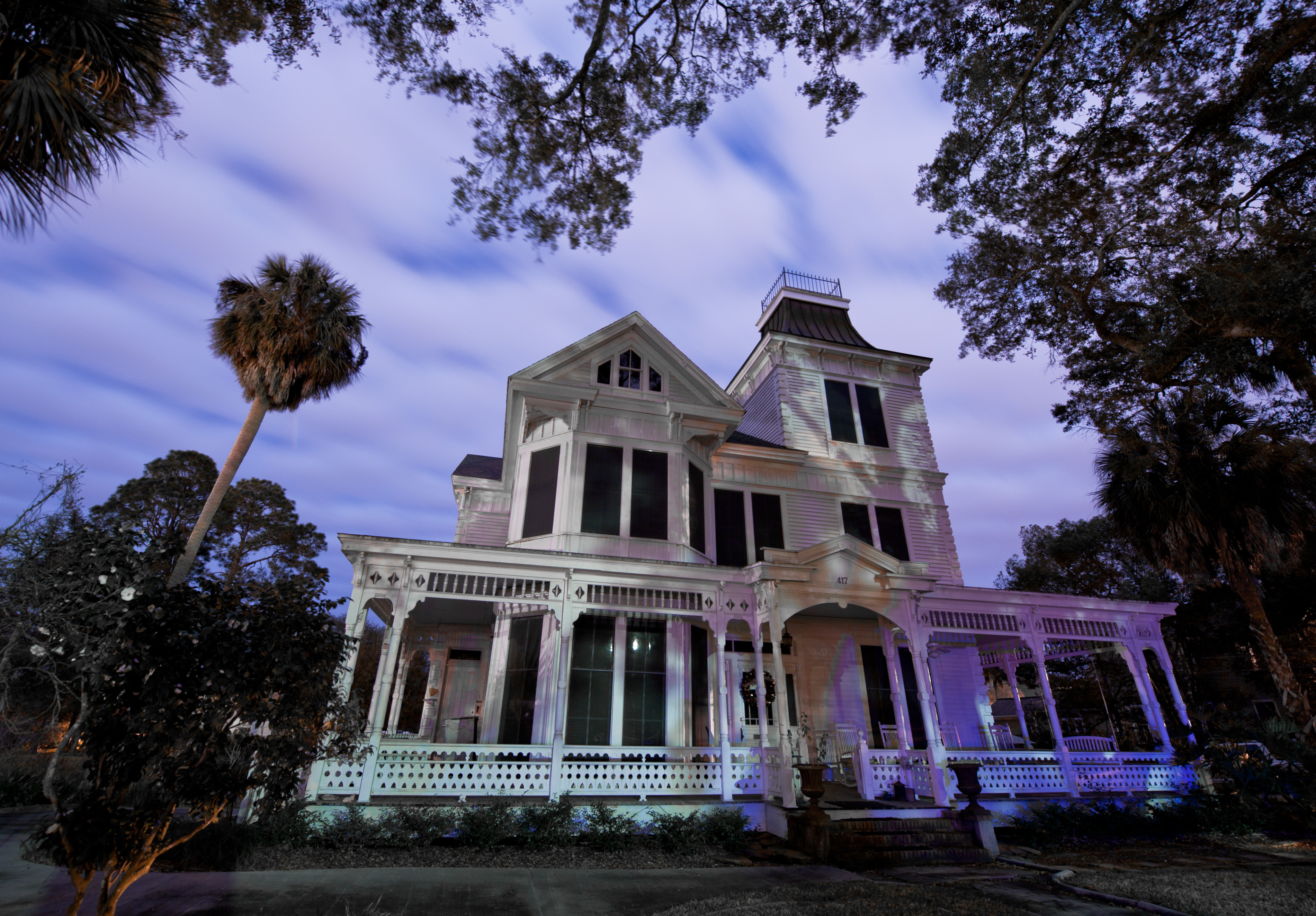 A beautiful 1880's Victorian home found in New Ibera near Shadows On The Teche plantation home.